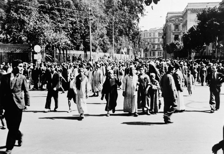 This is a general view of a demonstration taking place at Opera Square in Cairo, Egypt, Jan. 25, 1952.